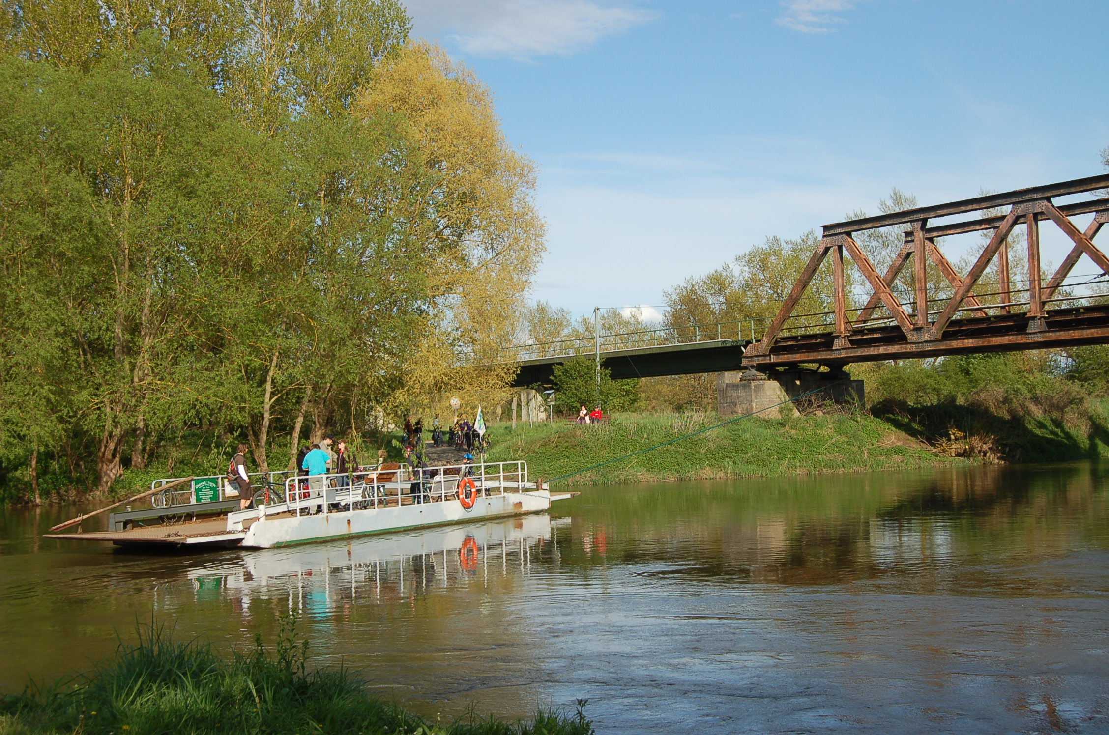 Reaction ferry near Pettstadt, Germany